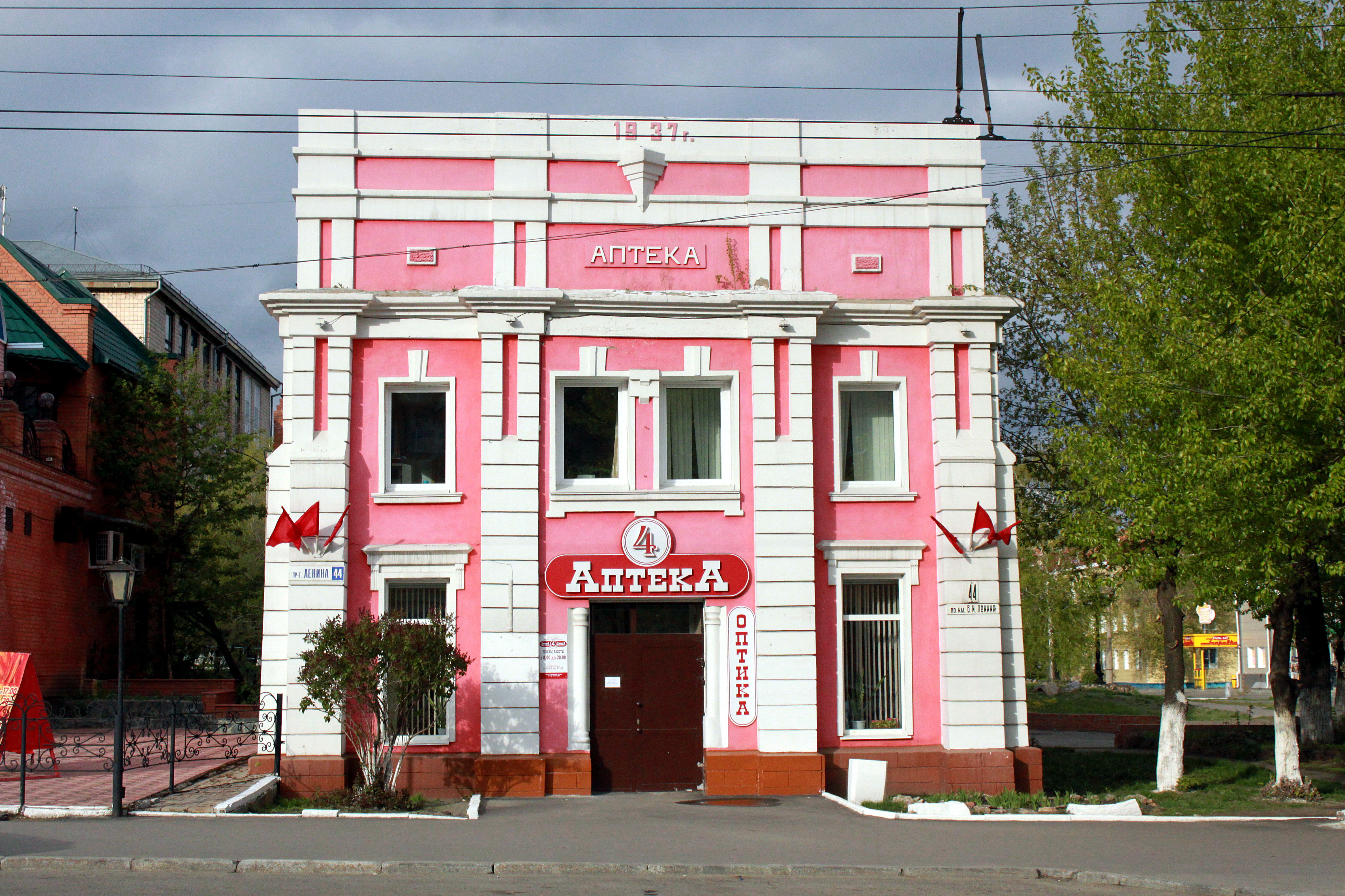 Old Catholic Church in Barnaul. The building is located in Lenin Avenue, 44. It was built in 1909—1913 by architect Ivan Nosovich. In 1936 сhurch was rebuilt. Now here is a pharmacy.